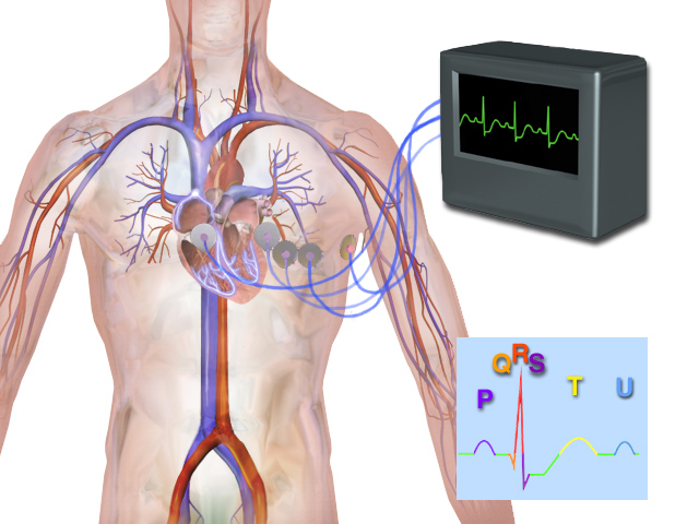 An illustration of an electromyogram procedure.